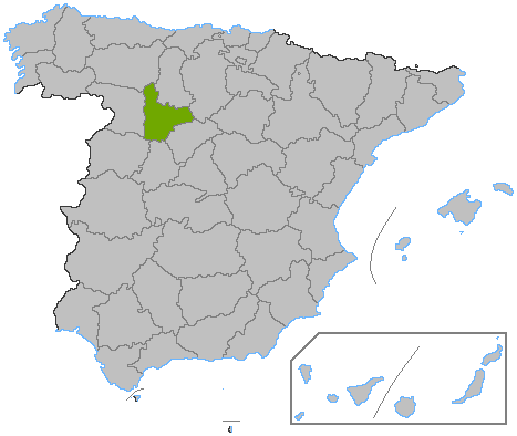 Location of the province of Valladolid, in Spain. Basado en: ProvPont.jpg Source: Designed by Satesclop. Original picture, designed by Sobreira.